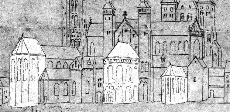 Maastricht, the Netherlands. Edited drawing based on a 17th-century view of Vrijthof square with the choirs of Saint John's, Saint Servatius and the Royal Chapel highlighted.